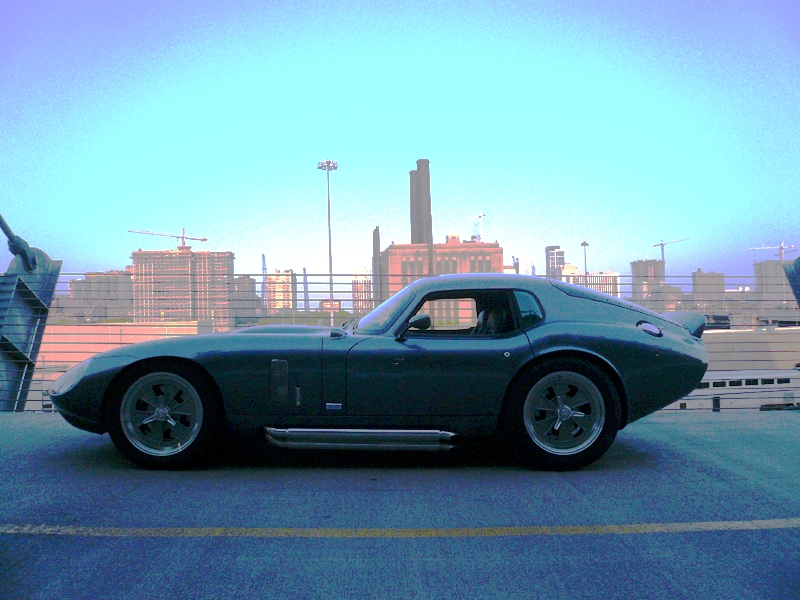 Photograph of Shelby Daytona coupe (Chassis #0121) taken facing east in Chicago on 9-5-07.